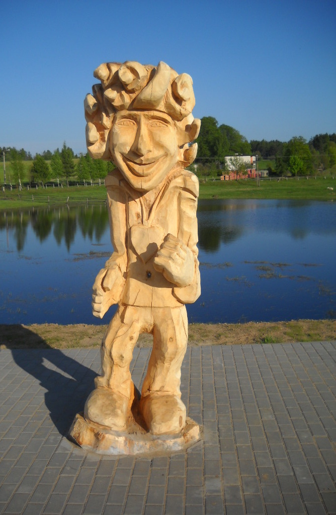 Statue of Kashubian mytical personage Lubiczk located on the „Poczuj Kaszubskiego Ducha” tourist route (Kobylasz, Poland).